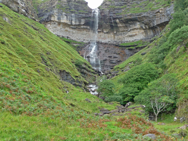 Bearreraig Waterfall, near to Bearreraig Bay [water Feature], Highland, Great Britain. Most of the water that carved this gorge now reaches the sea via the power station NG5152 : Storr Lochs Hydro Power Station . This picture shows a more typical flow than NG5152 : Loch Leathan falls. .